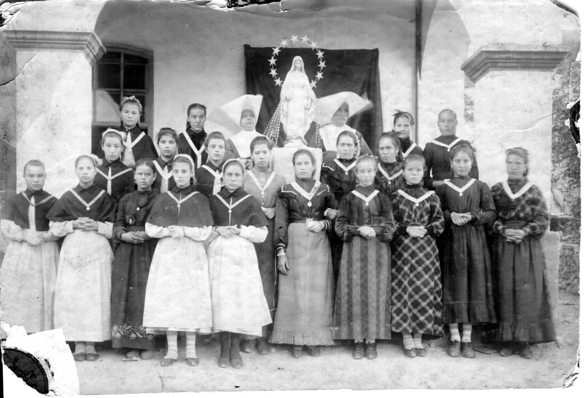 Bulgarian Orfans in front of the Bulgarian Catholic Monastery of St George in Kukush.